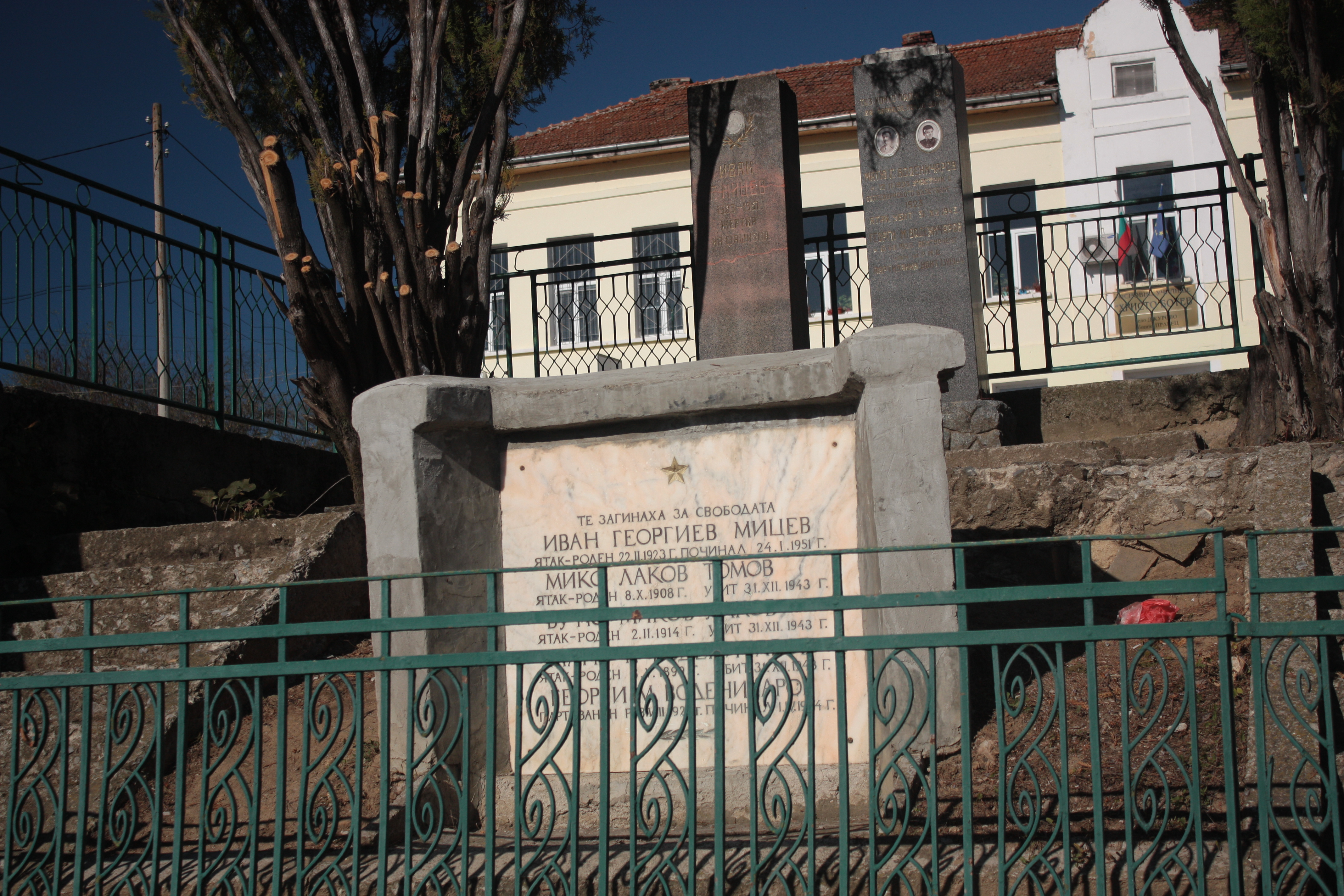 Antifascist Monuments in Dzhurovo, Bulgaria